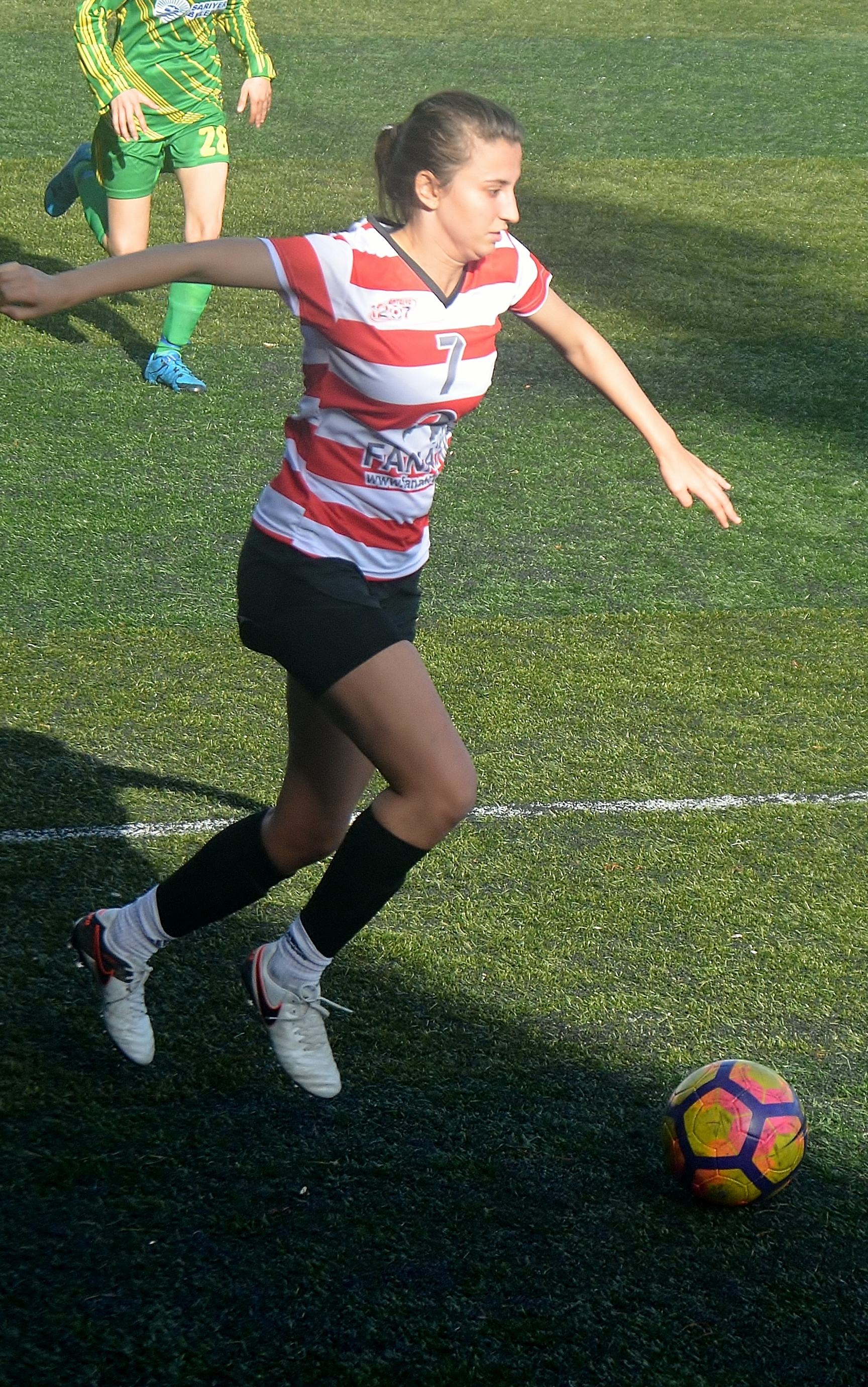 Şefika Altındal playing for 1207 Antalya Döşemealtı Belediyespor in the away match against Kireçburnu Spor in the 2017-18 Turkish Women's First League.